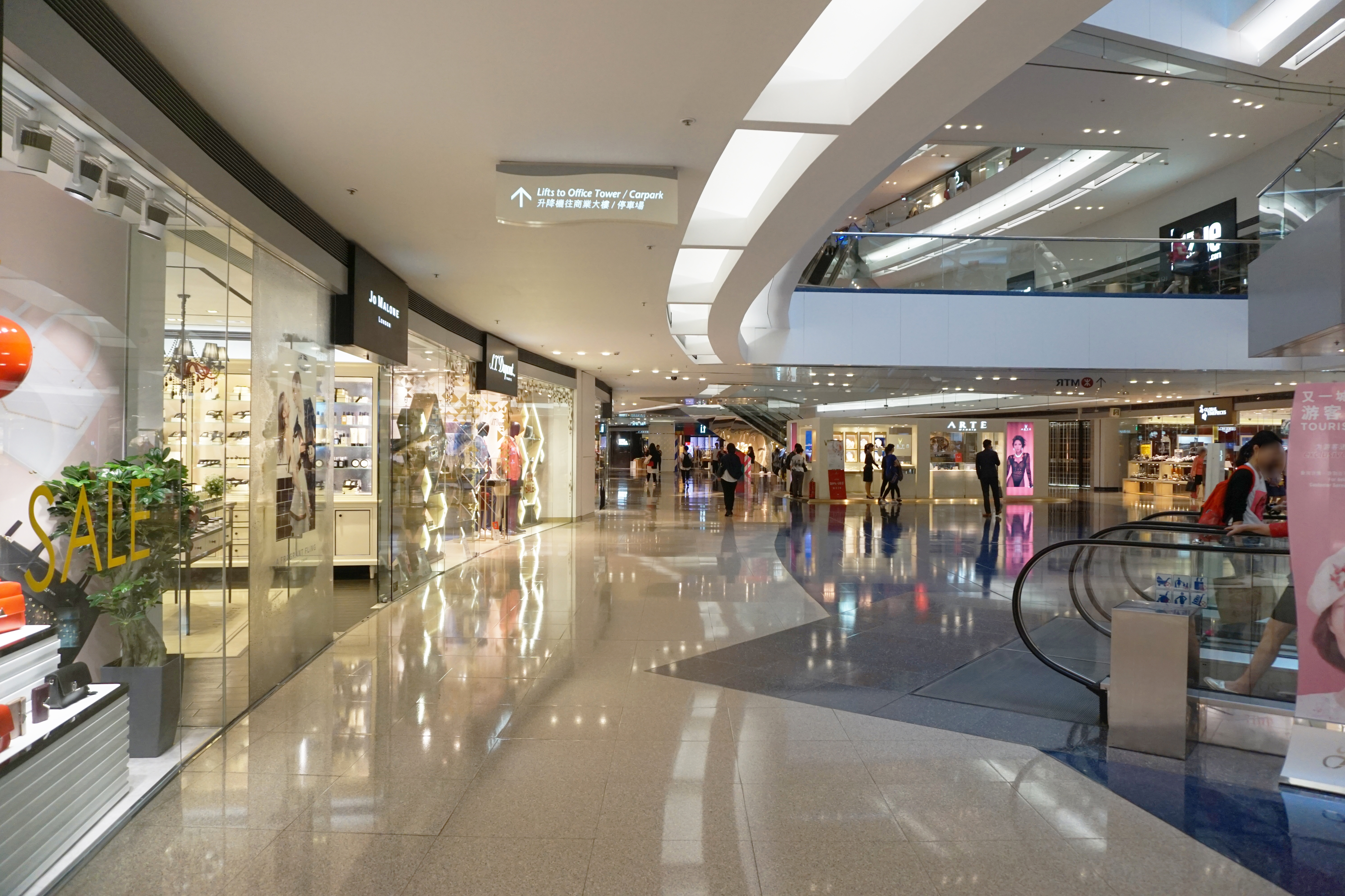 Festival Walk in Kowloon Tong, Hong Kong.